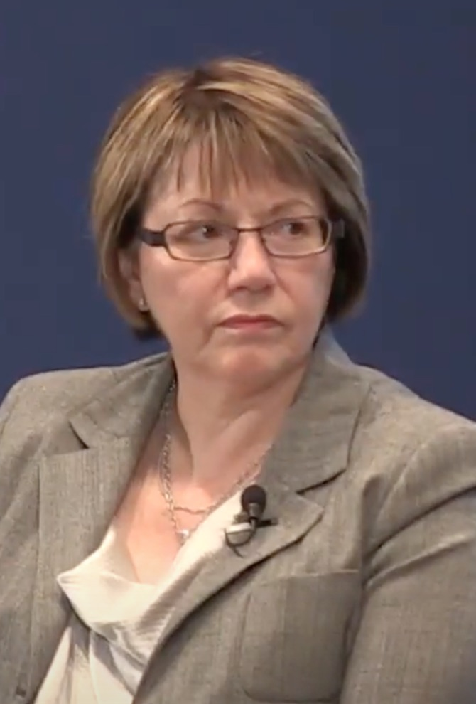 Anne McLellan, Former Deputy Prime Minister of Canada and Member of Parliament for Edmonton Centre.